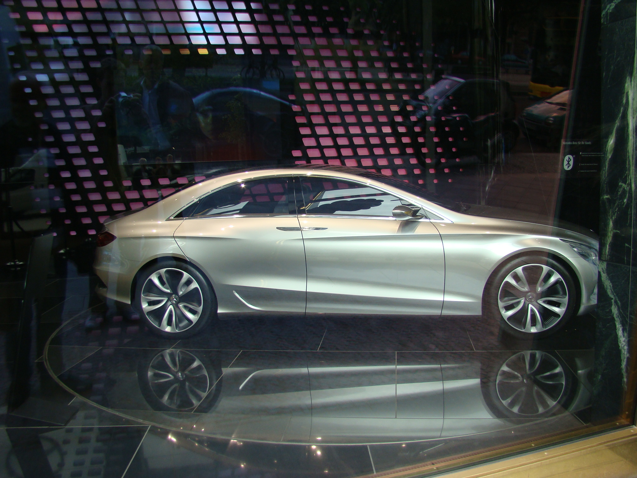 Mercedes-Benz F800